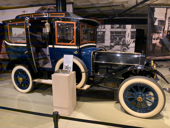 In 2016, the museum's 1913 ALCO Model Six Berline Limousine won the Ansel Adams Award at the Pebble Beach Concours d'Elegance in California, one of the country's most prestigious auto shows. The Ansel Adams Award is given to the most desirable touring car at the show.[5]